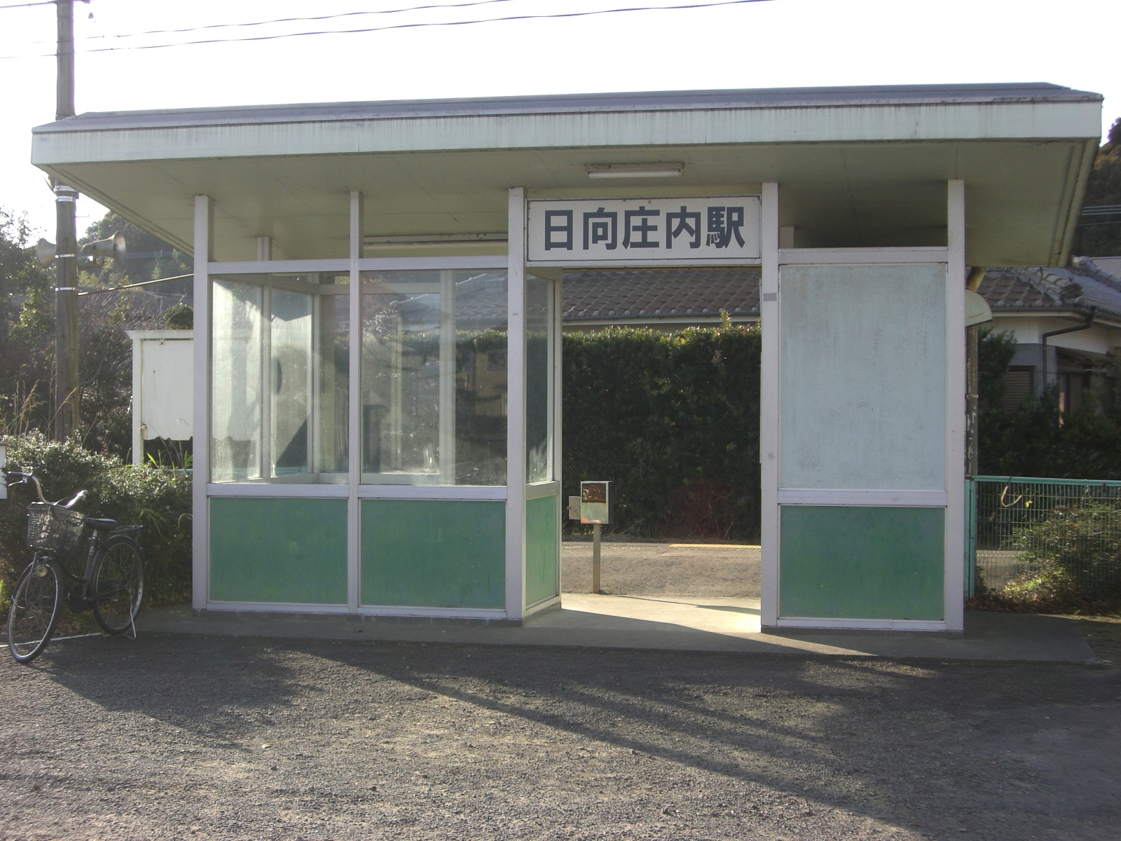 Hyuga-Shonai Station, Kitto Line, JR Kyushu